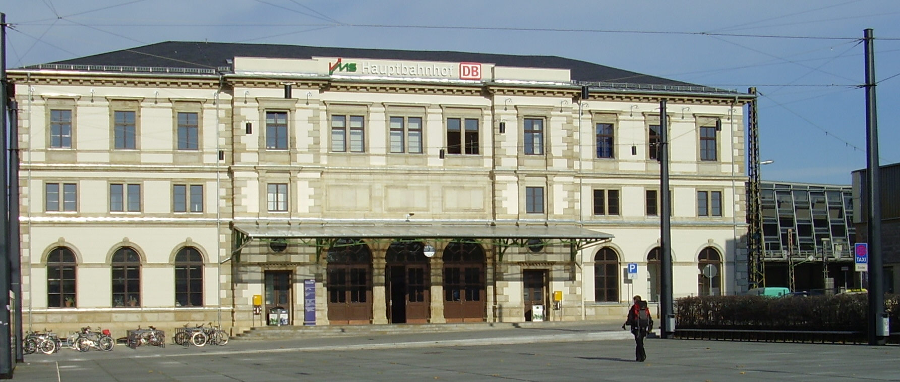 Main entrance of Chemnitz's Main Station